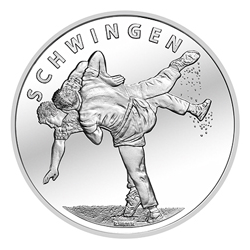 20 Swiss Francs commemorative coin "Schwingen" (Swiss wrestling)